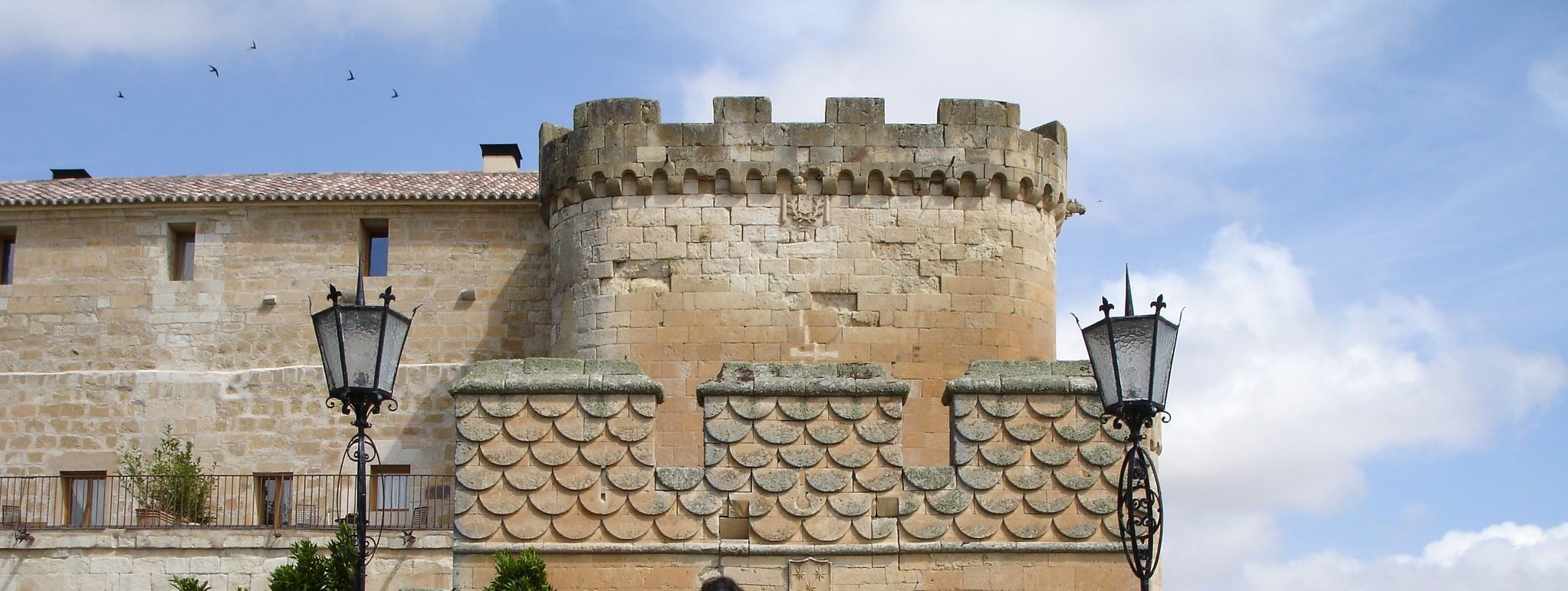 Caste of Villanueva del Cañedo (Castillo del Buen Amor). Topas (Salamanca)